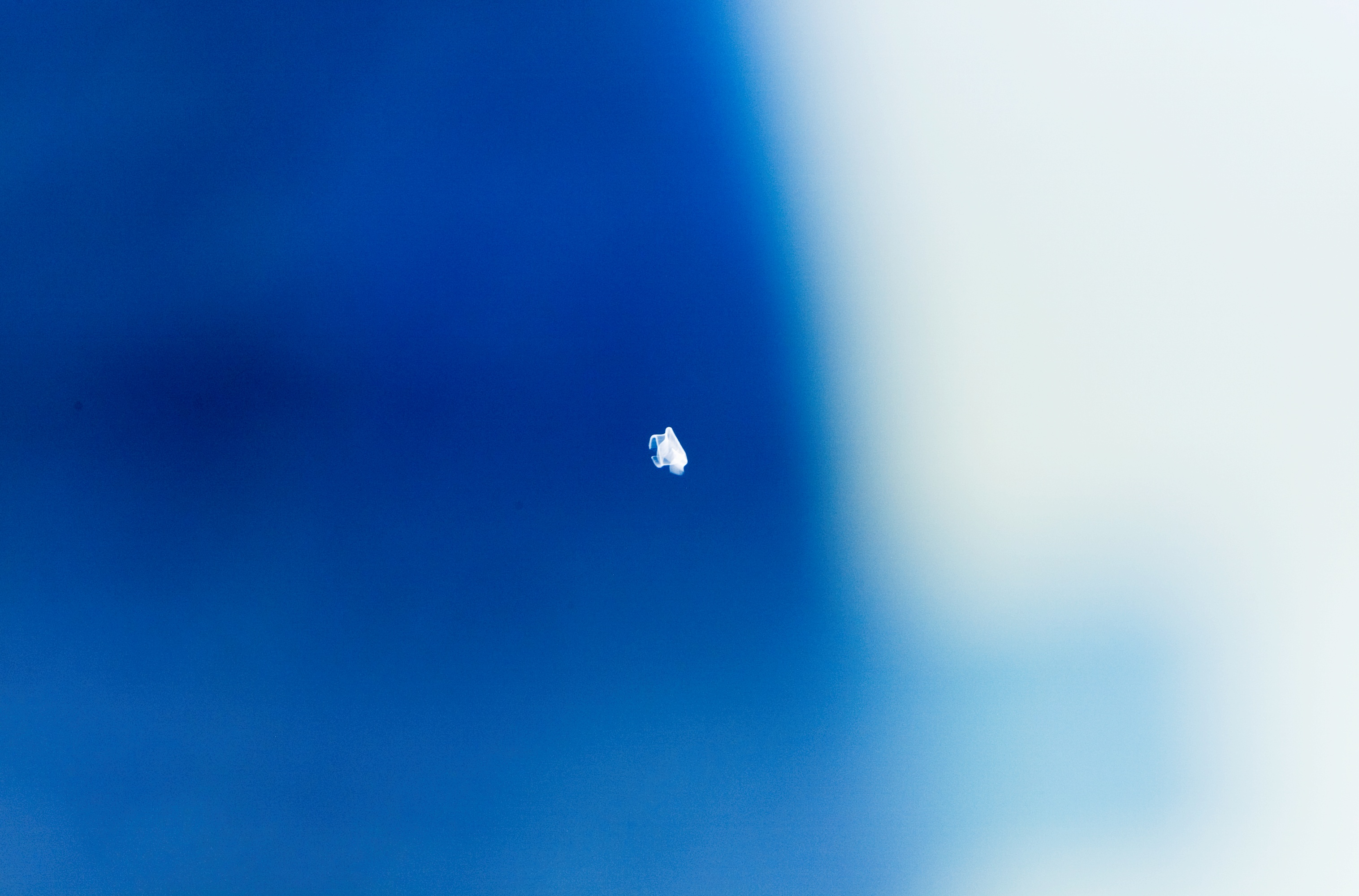 S115-E-07201 (19 Sept. 2006) --- This picture of unidentified possible small debris was recorded with a digital still camera by astronaut Daniel Burbank onboard the Space Shuttle Atlantis around 11 a.m. (CDT) today. Engineers do not believe this to be the same object seen in video taken by shuttle TV cameras earlier in the day. This picture was taken with a Kodak DCS-760 camera with a 180 mm lens and a 1/4 second exposure duration, long enough to cause motion blurring of the object which actually resembles a small c-shaped clip. Additional photos with a shorter exposure were taken immediately after this one.